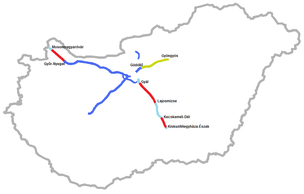 Toll and tollfree motorways in Hungary, february 1999 Red line: Private motorway, toll collecting by gatesLight blue line: Private motorway, free of chargeDark blue line:Motorways owned by the Hungarian state, free of chargeOrange line:Motorways owned by the Hungarian state, toll collecting by gatesGreen line:Motorways owned by the Hungarian state, fee payment by vignette